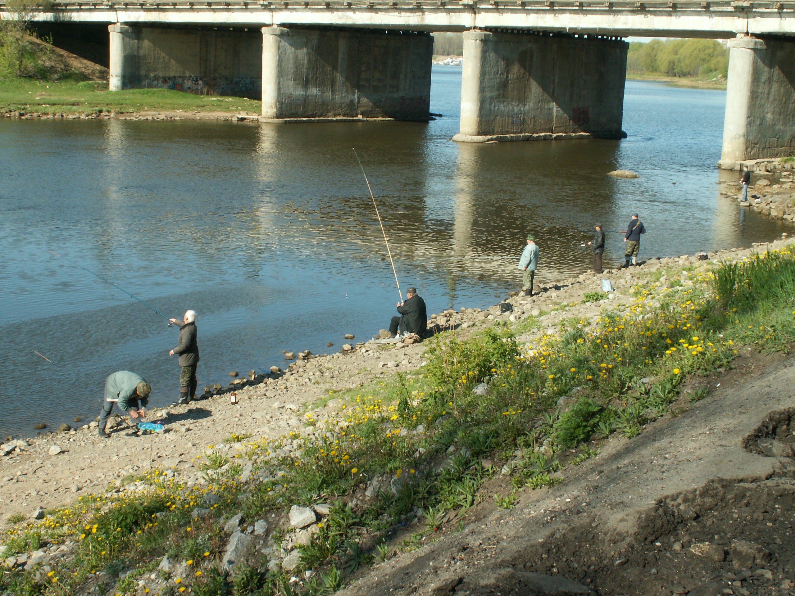 Angling at the Kotorosl River in Yaroslavl, Russia.